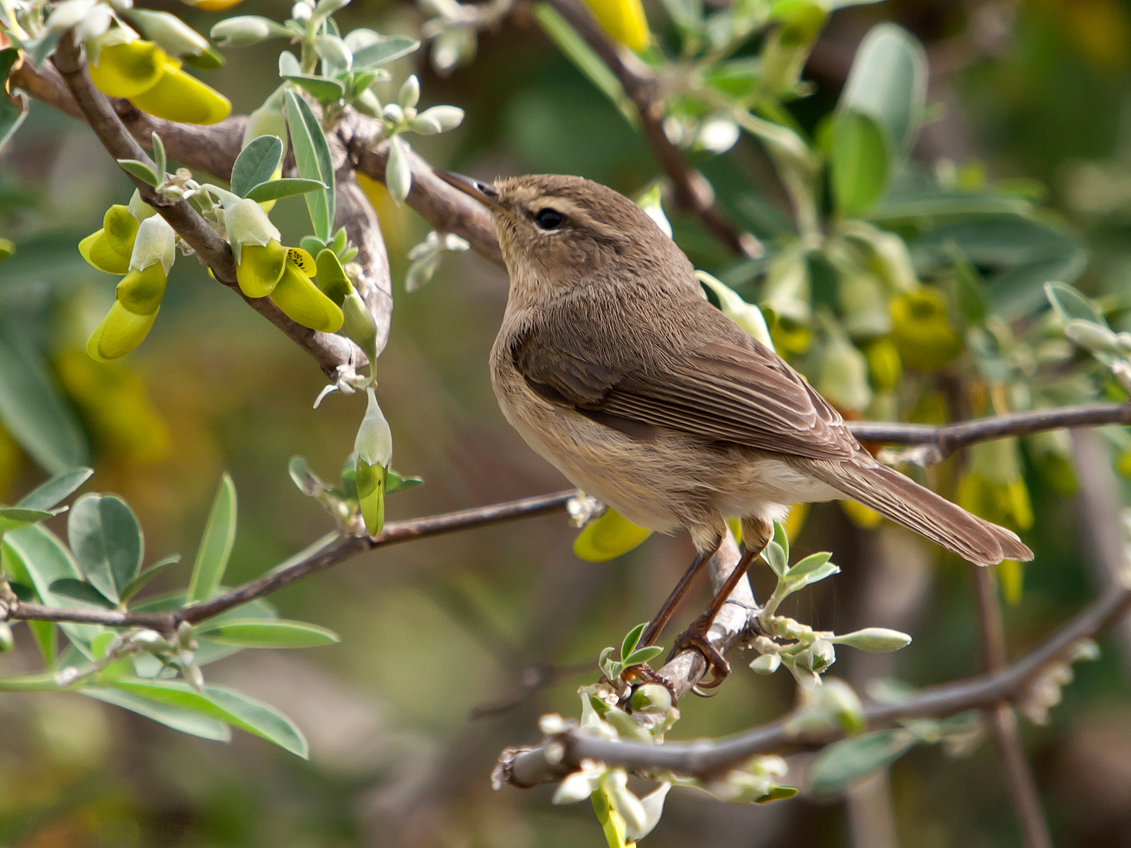 A Canary Islands Chiffchaff in Dragonal, Gran Canaria, Canary Islands, Spain.